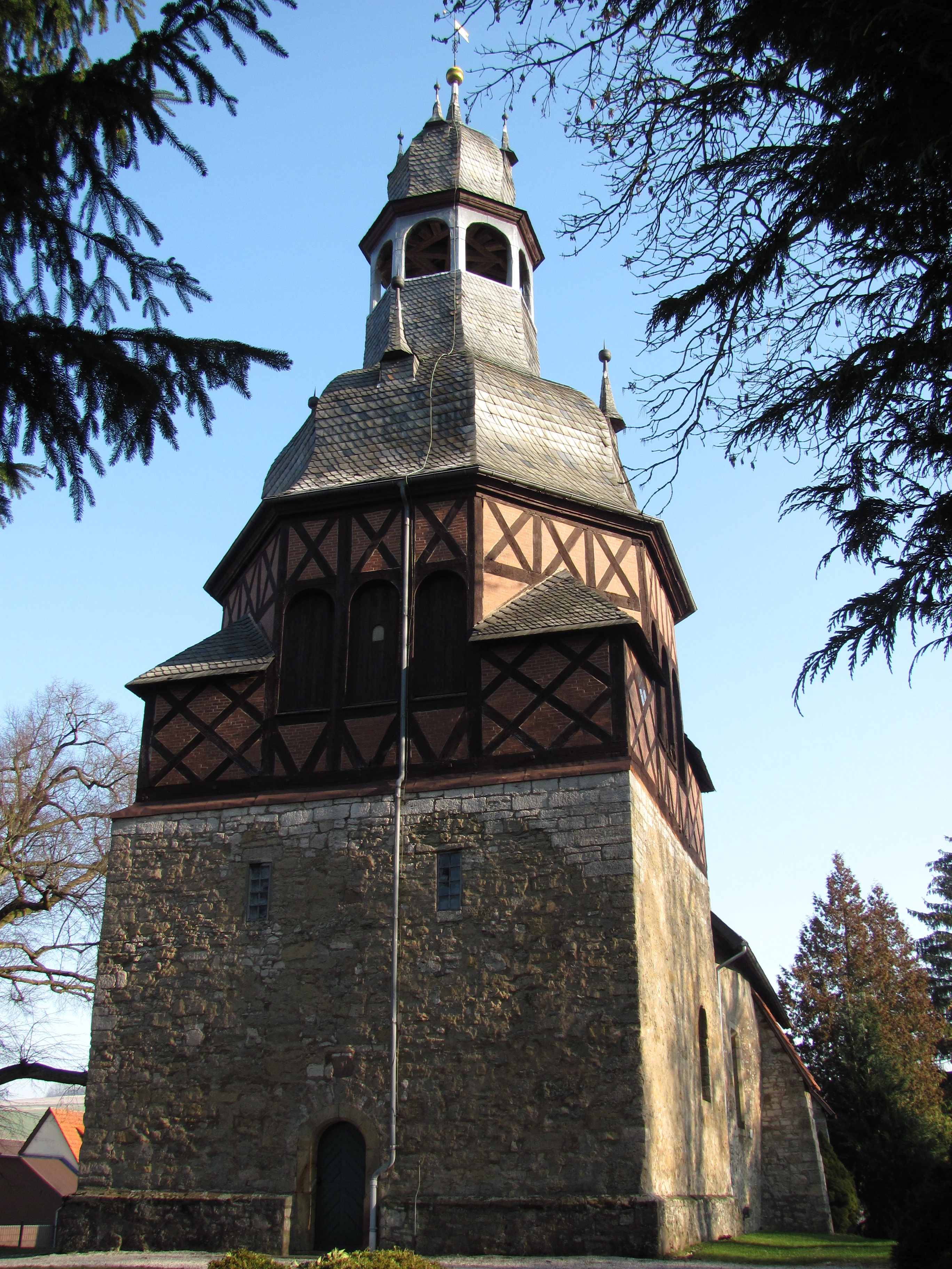 Saint John's Church, Gittelde, Lower Saxony, Germany